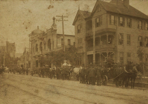 Firefighters on San Jacinto Street with firefighting equipment